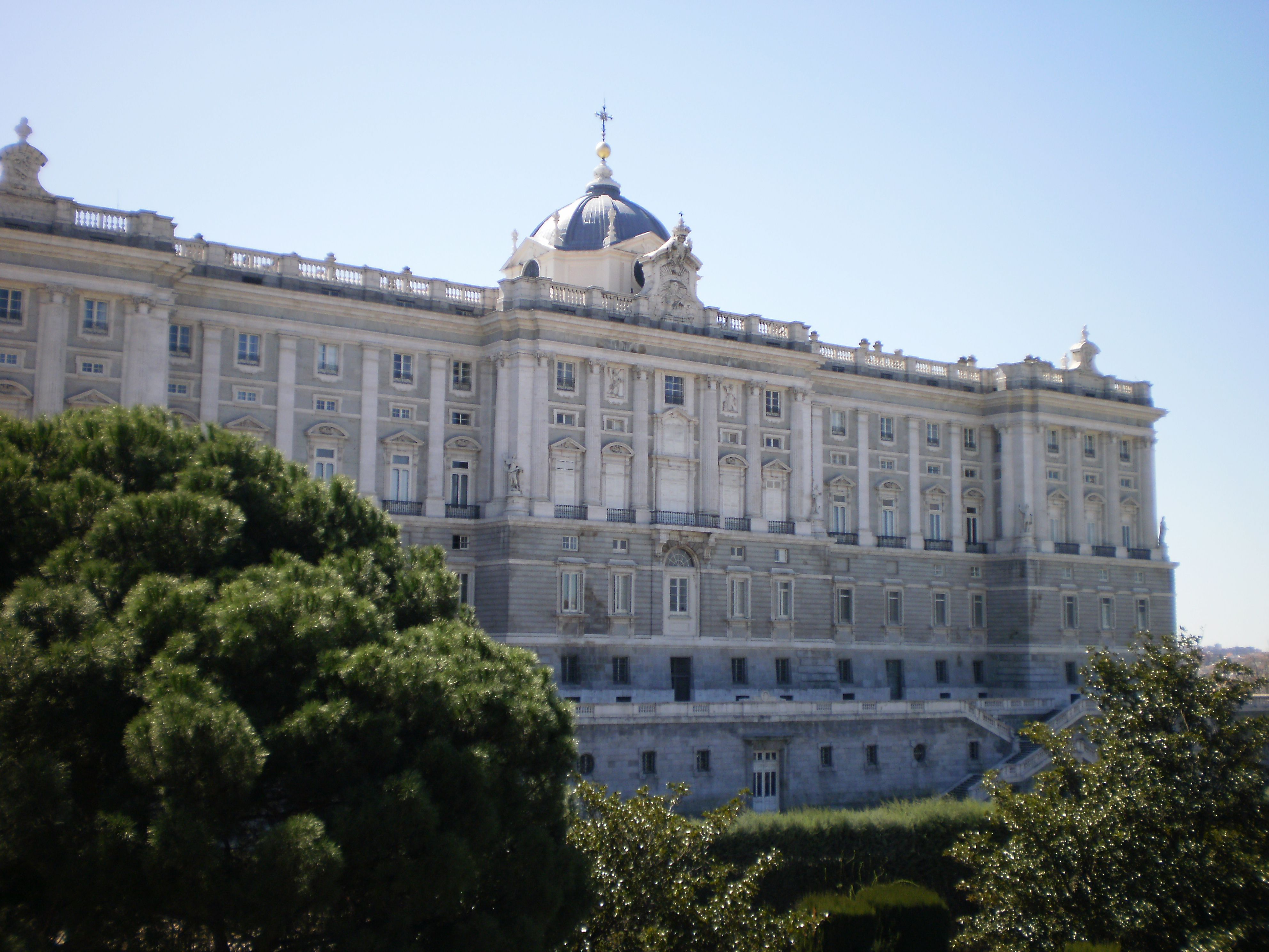 Royal Palace of Madrid